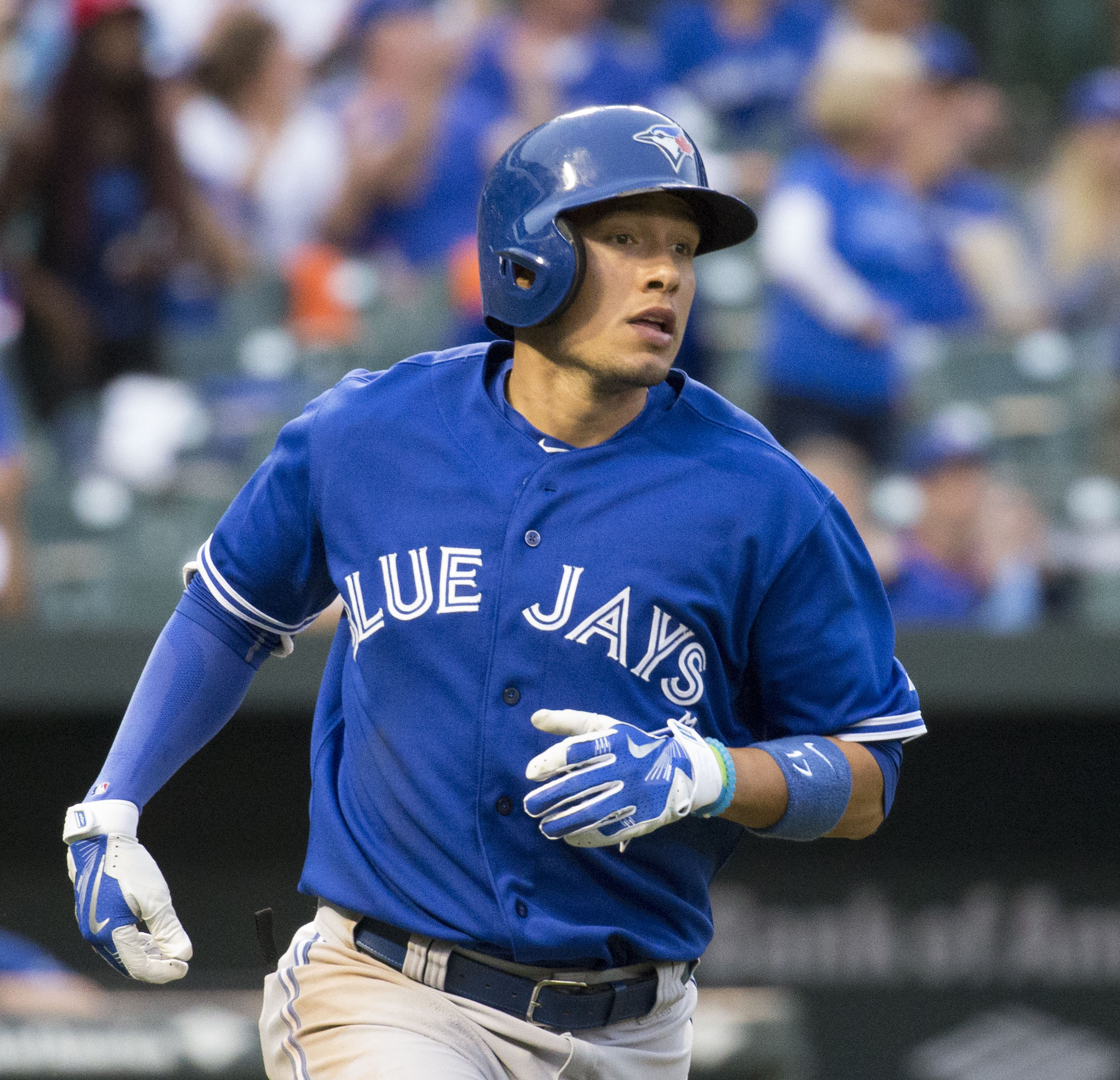 Ryan Goins on September 30, 2015